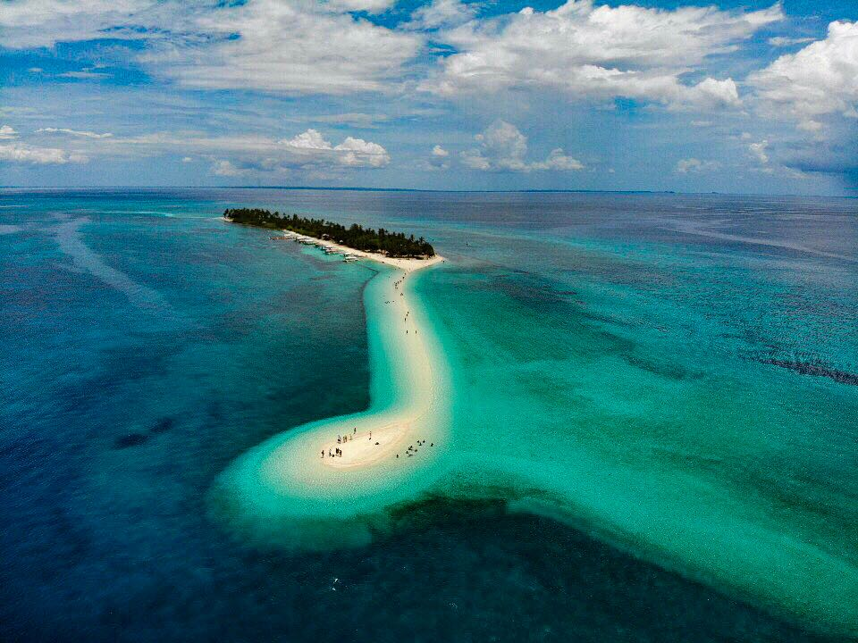 Aerial view of Kalanggaman Island in Palompon, Leyte, Eastern Visayas, Philippines